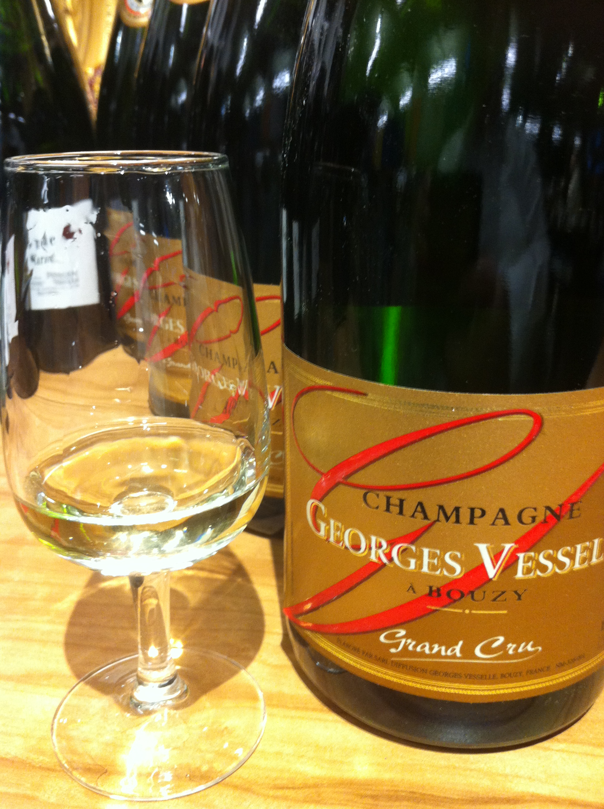 French Champagne made from Grand Cru vineyards